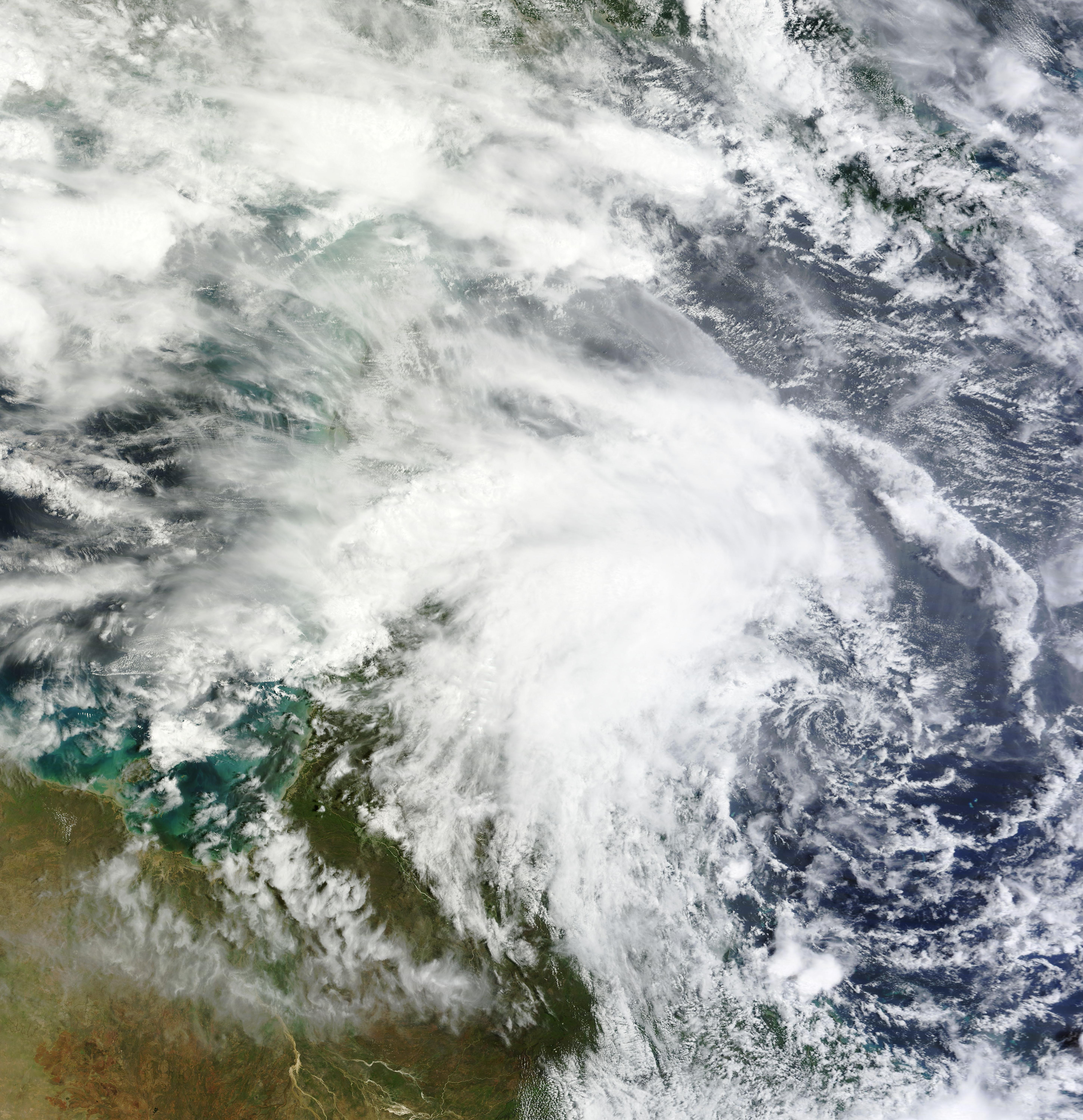 The precursor tropical low to Cyclone Jasmine crossing the Cape York Peninsula on February 3, 2012.